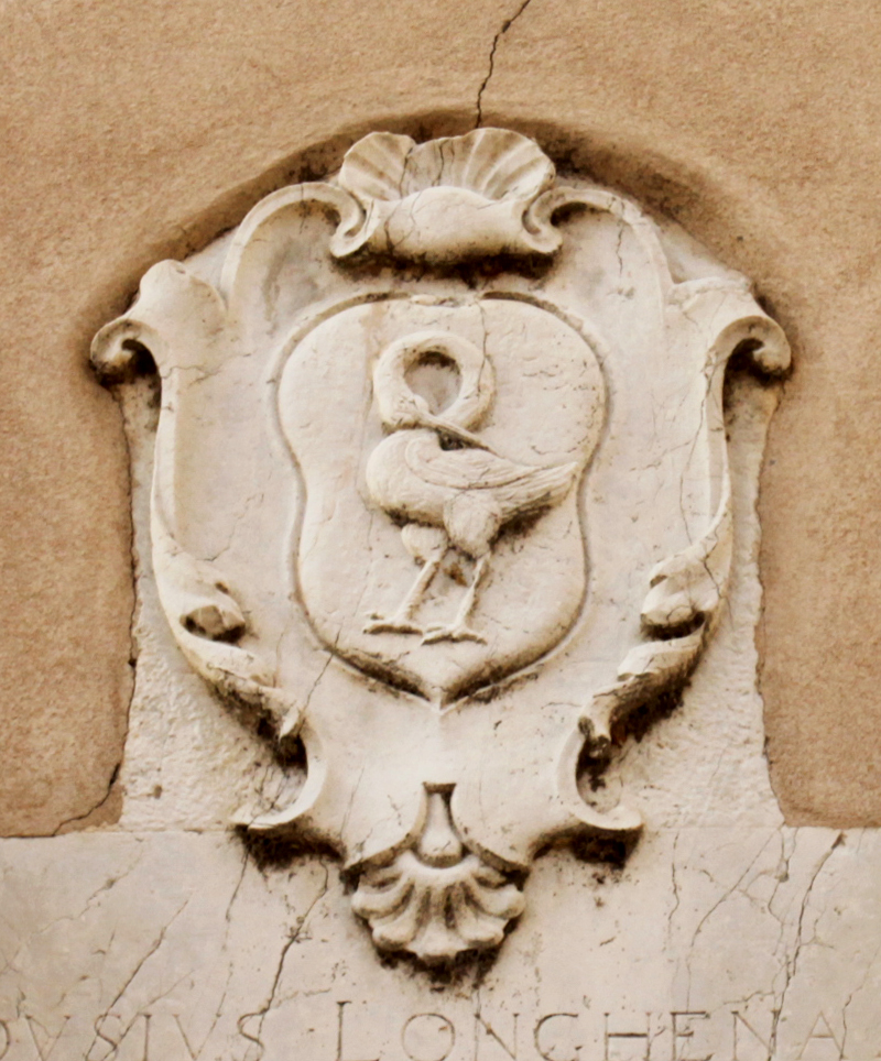 coat of arms of Longhena family from Brescia